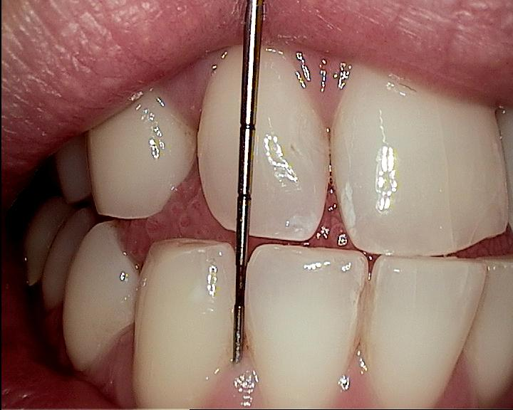 IntraOral Camera with Periodontal Pocket Probe